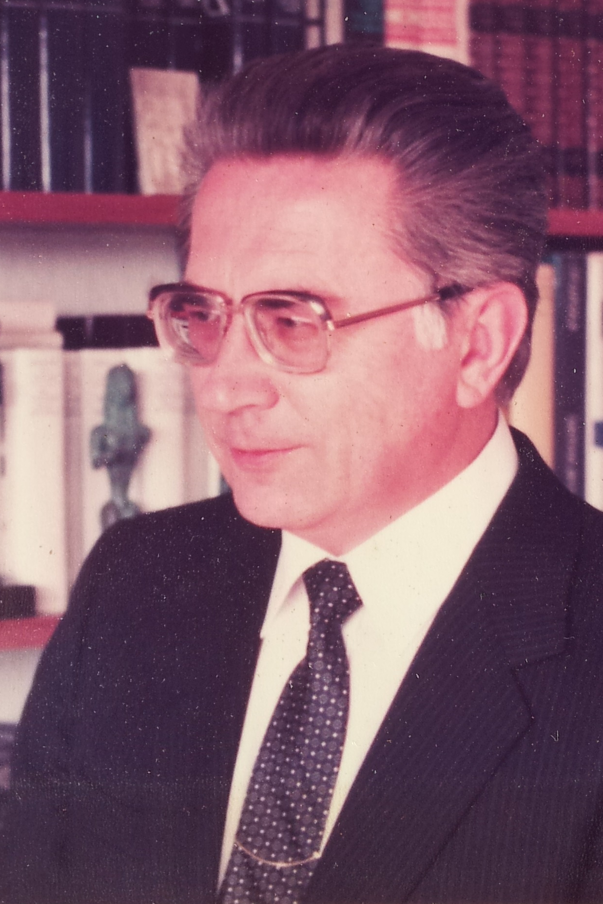 Günter Wojaczek